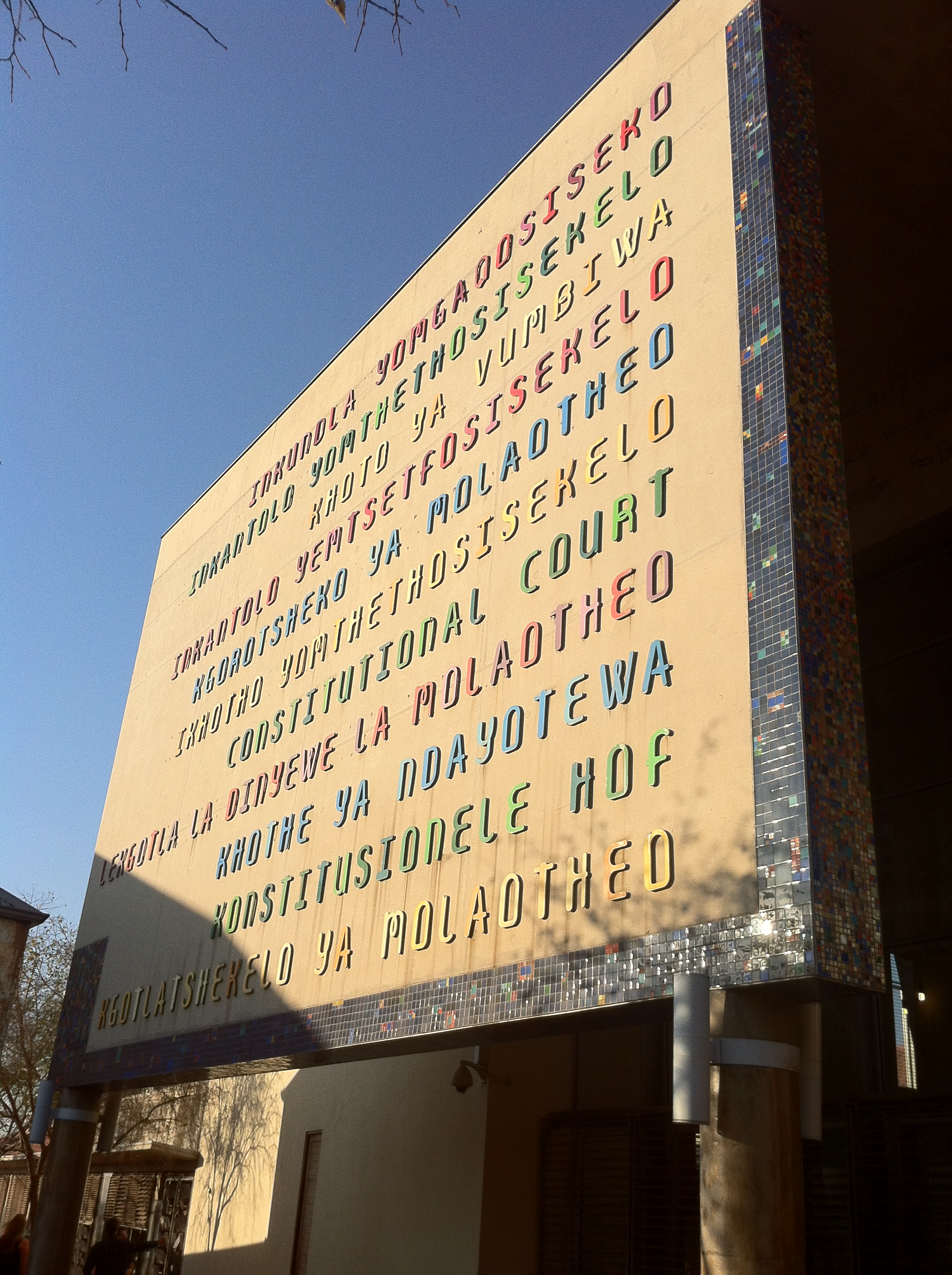 constitutional court of South Africa